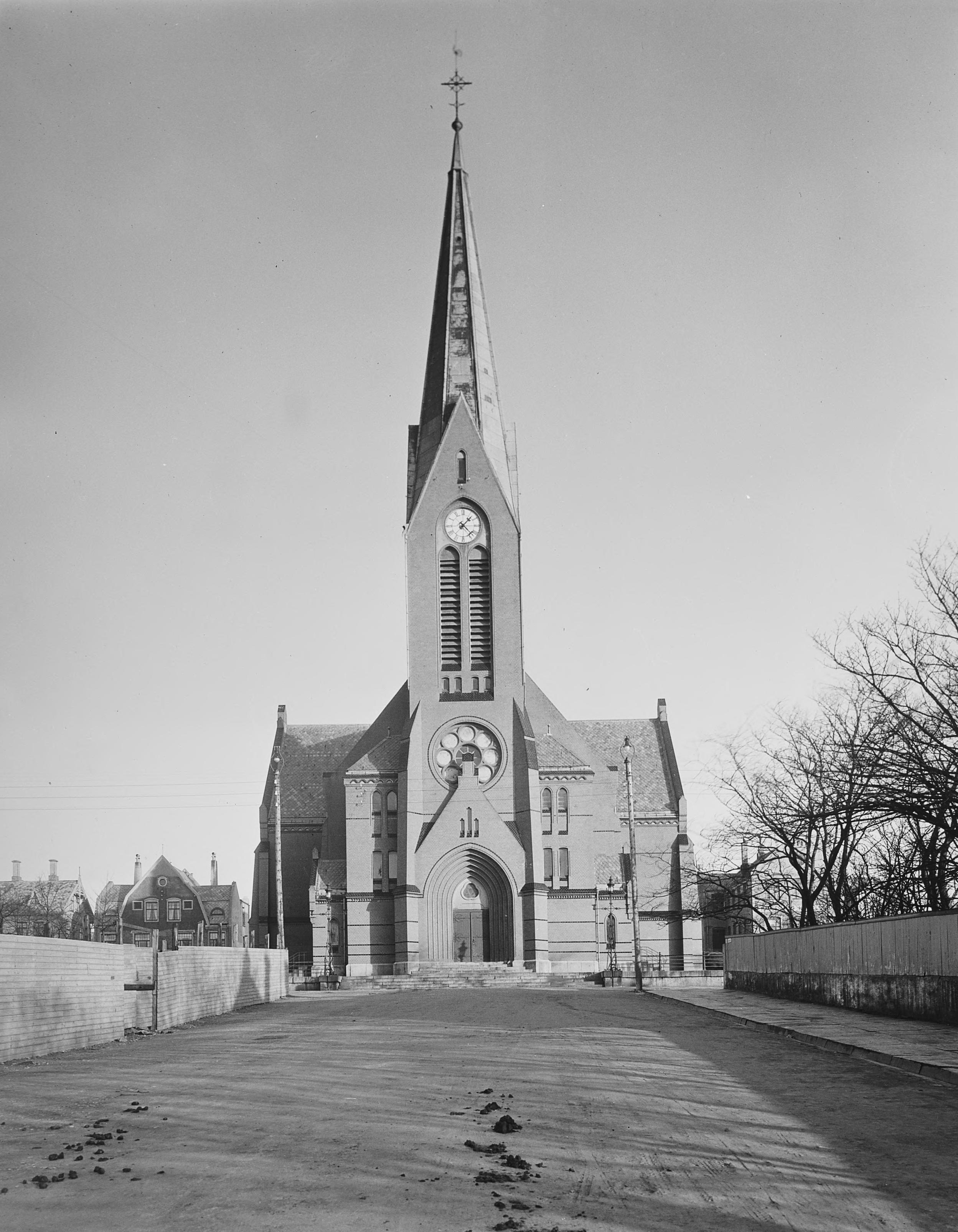 Vår Frelsers kirke, Haugesund in 1925